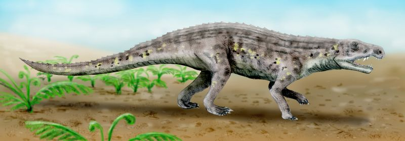 Venaticosuchus rusconii, an ornithosuchid from the Late Triassic of Argentina. Digital.